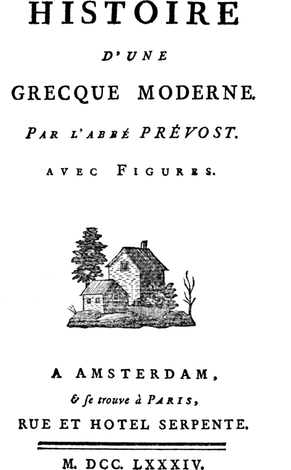 Illustration of The Story of a Modern Greek Woman by Antoine François Prévost (1697-1763).